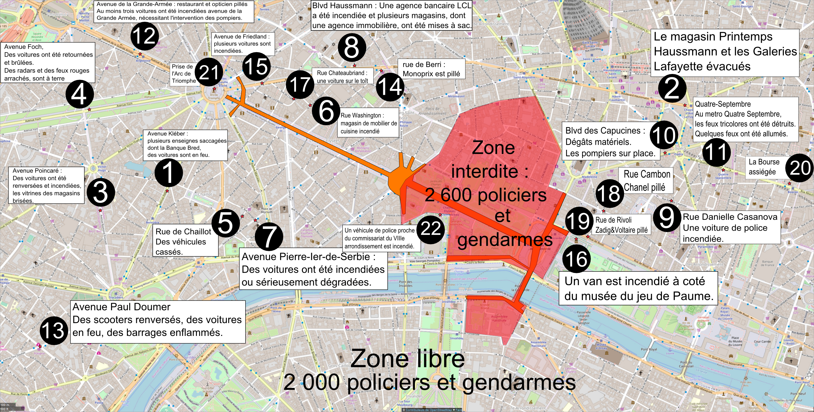 Paris_1_decembre_2018